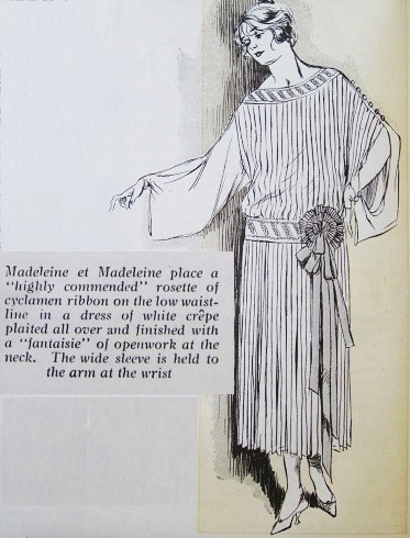 Madeleine-et-Madeleine fashion house designed dress, January 1922